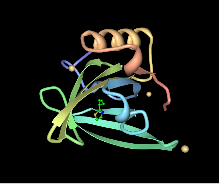 Tertiary structure of mouse major urinary protein I bound to 2-sec-butyl-4,5-dihydrothiazole. Resolved from PDB:1MUP. The protein has eight beta sheets (arrows) arranged in a beta barrel open at one end, in which the 2-sec-butyl-4,5-dihydrothiazole ligand is bound.